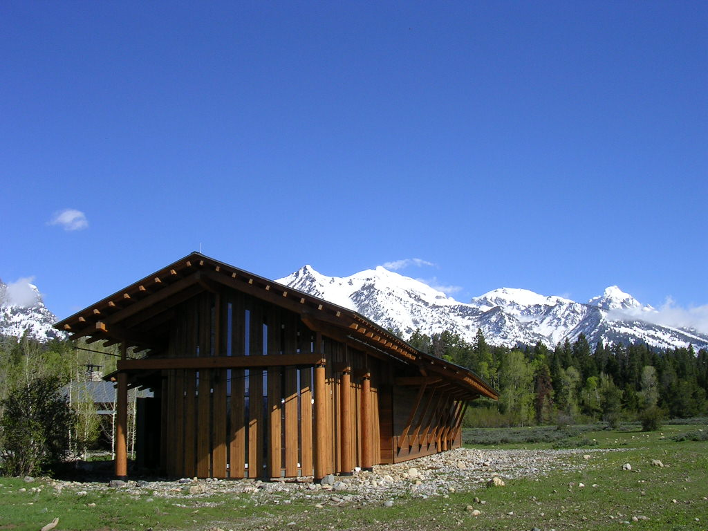 Exterior of the Laurance S. Rockefeller Preserve visitor center in Grand Teton National Park. 43°37′35″N 110°46′31″W / 43.62639°N 110.77528°W